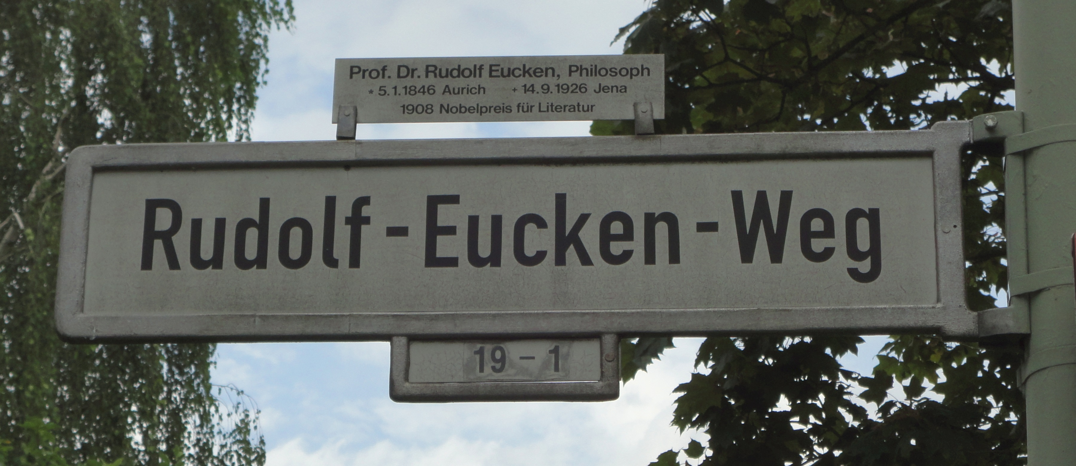 Göttingen-Weende, road sign Rudolf-Eucken-Weg